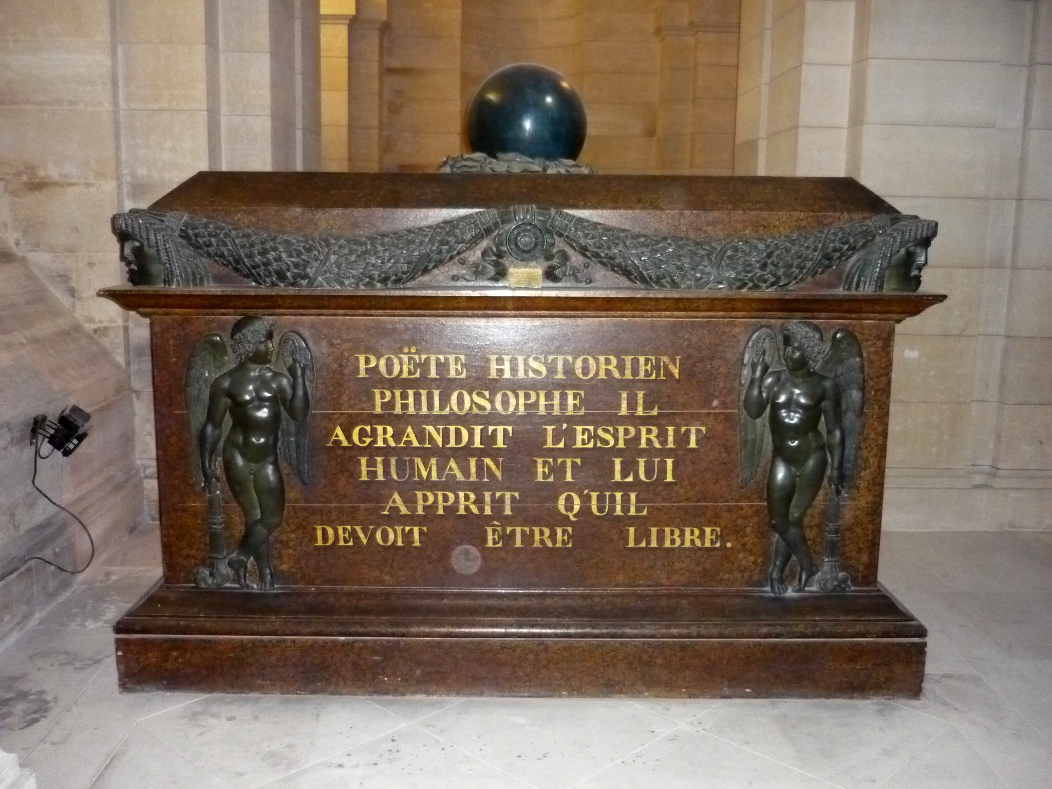 Voltaire's grave, Panthéon, Paris, France